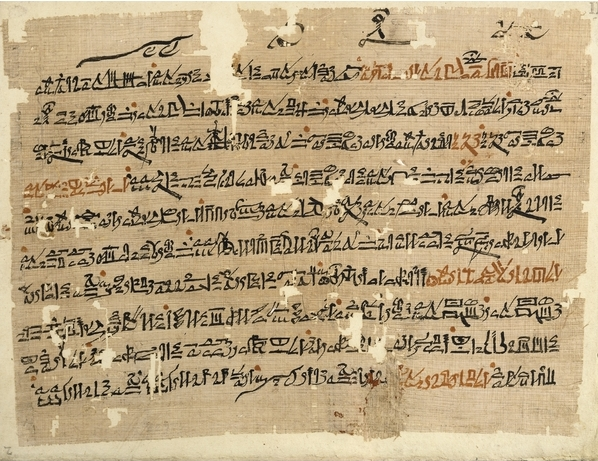 Papyrus Sallier II, that contains a big part of The Teaching of King Amenemhat I, King of the egyptian Middle Kingdom, 12th Dynasty. It was written by a treasury scribe called Inena, who copied the papyrus in 'Year 1, month 1 of Winter, day 20' under Sety II (1204 BC).